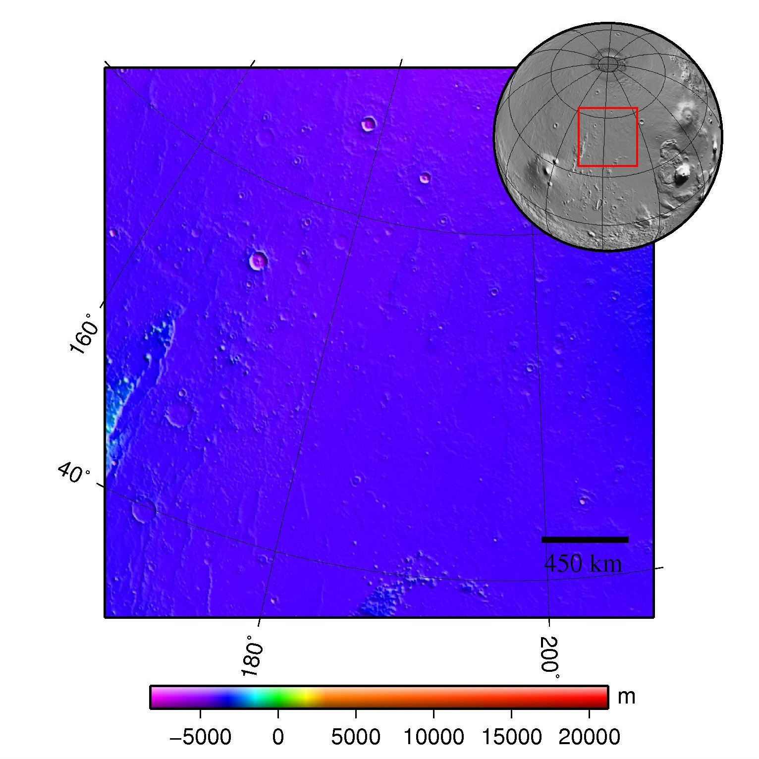 Topography map of Arcadia Planitia on Mars